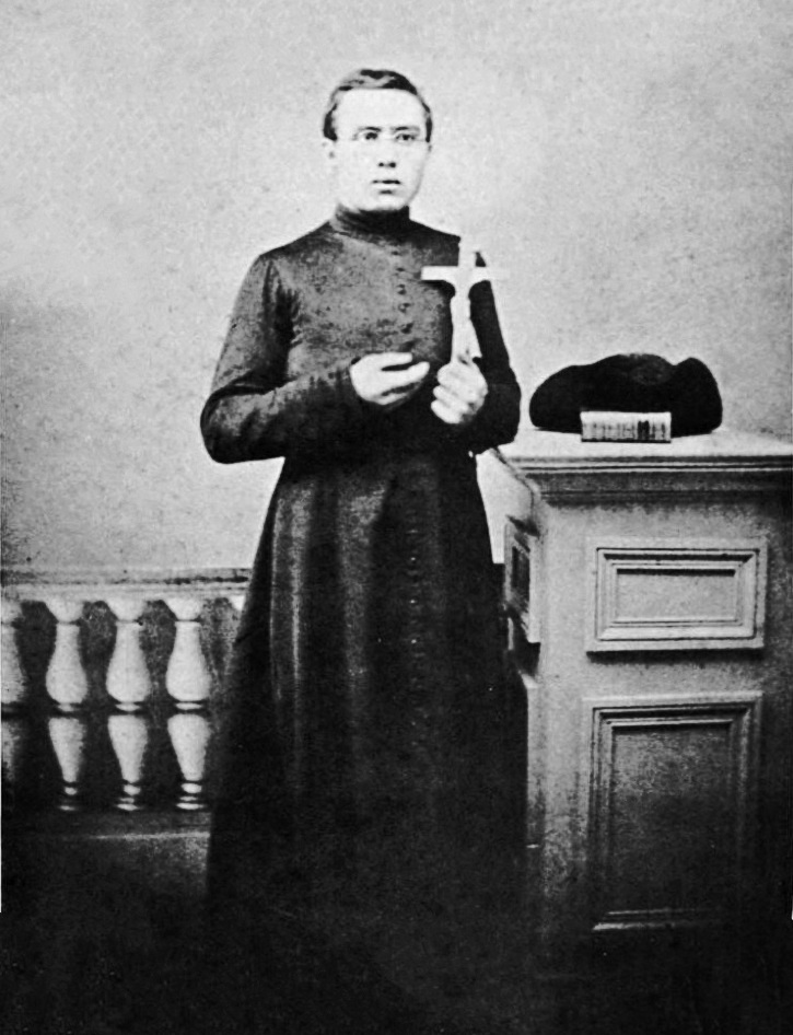 The twenty-three year old Damien striking the pose of his hero Saint Francis Xavier, just before he left Europe in October 24, 1863. Sacred Hearts Archives, Louvain